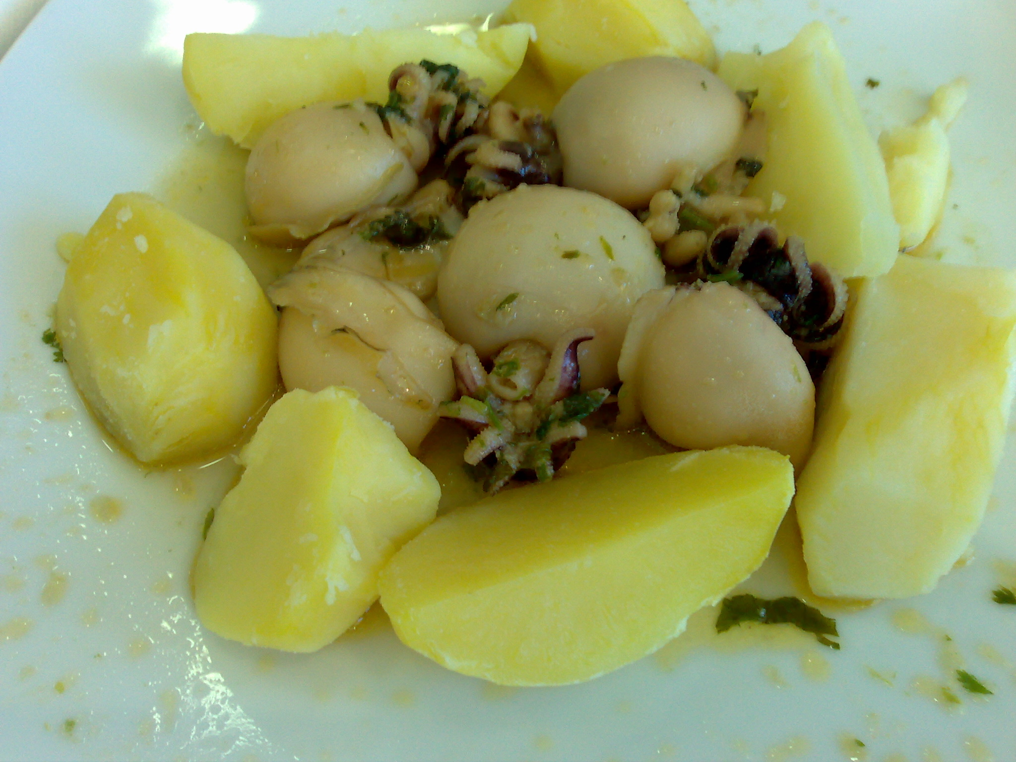 Choquinhos à algarvia, a portuguese dish with cuttlefish.